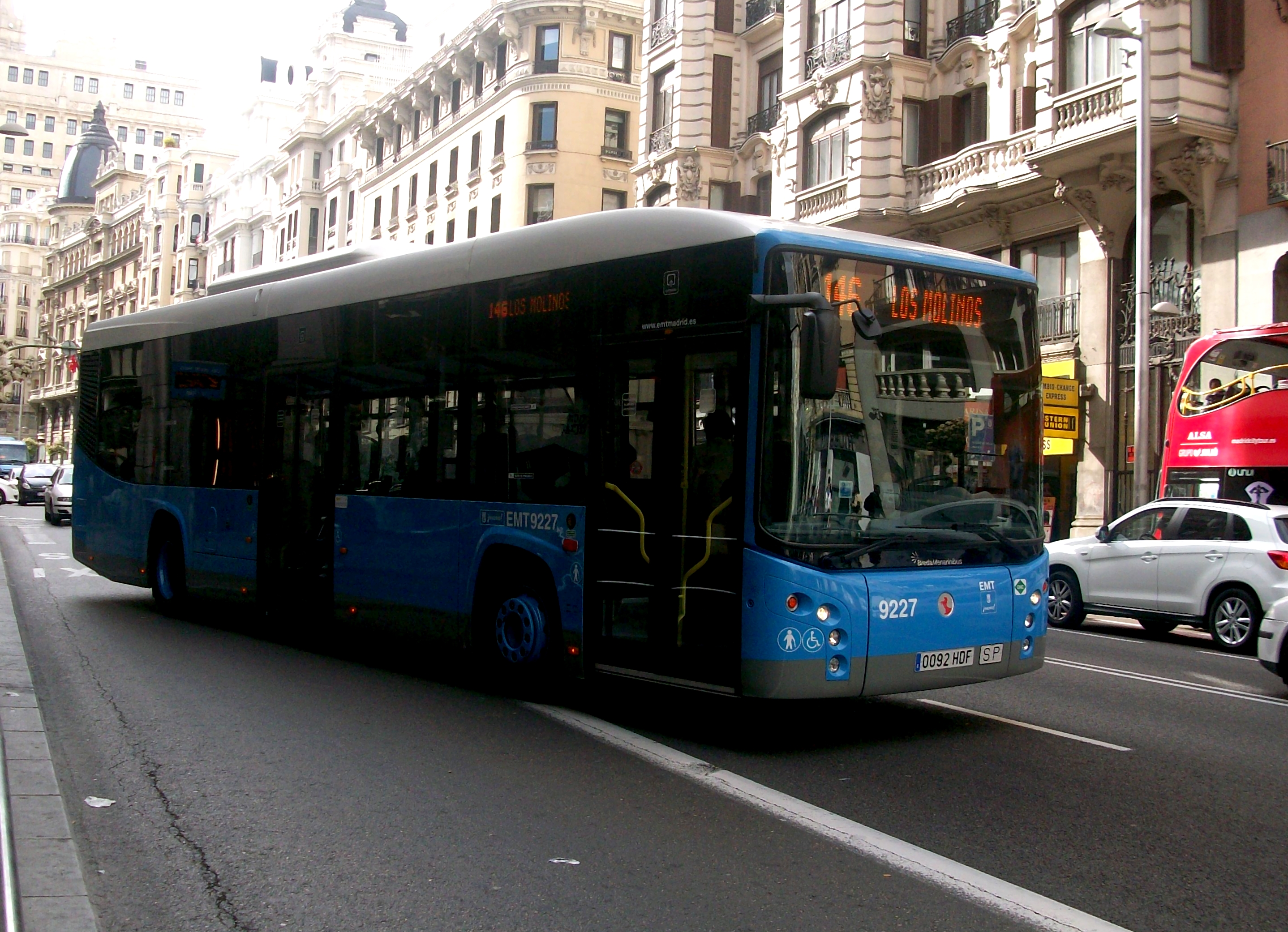 BredaMenarinibus Avancity bus (#9227) of EMT, Madrid, Spain.